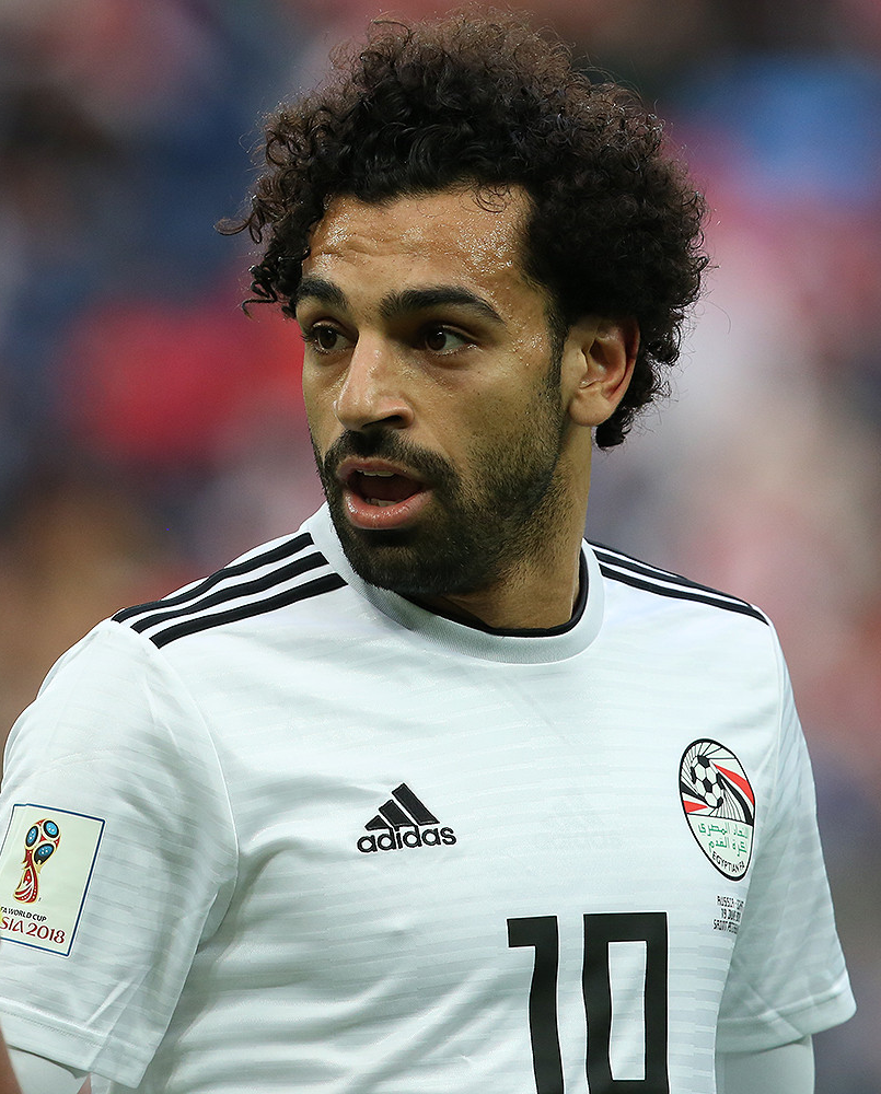 Egyptian footballer Mohamed Salah during a 2018 FIFA World Cup match